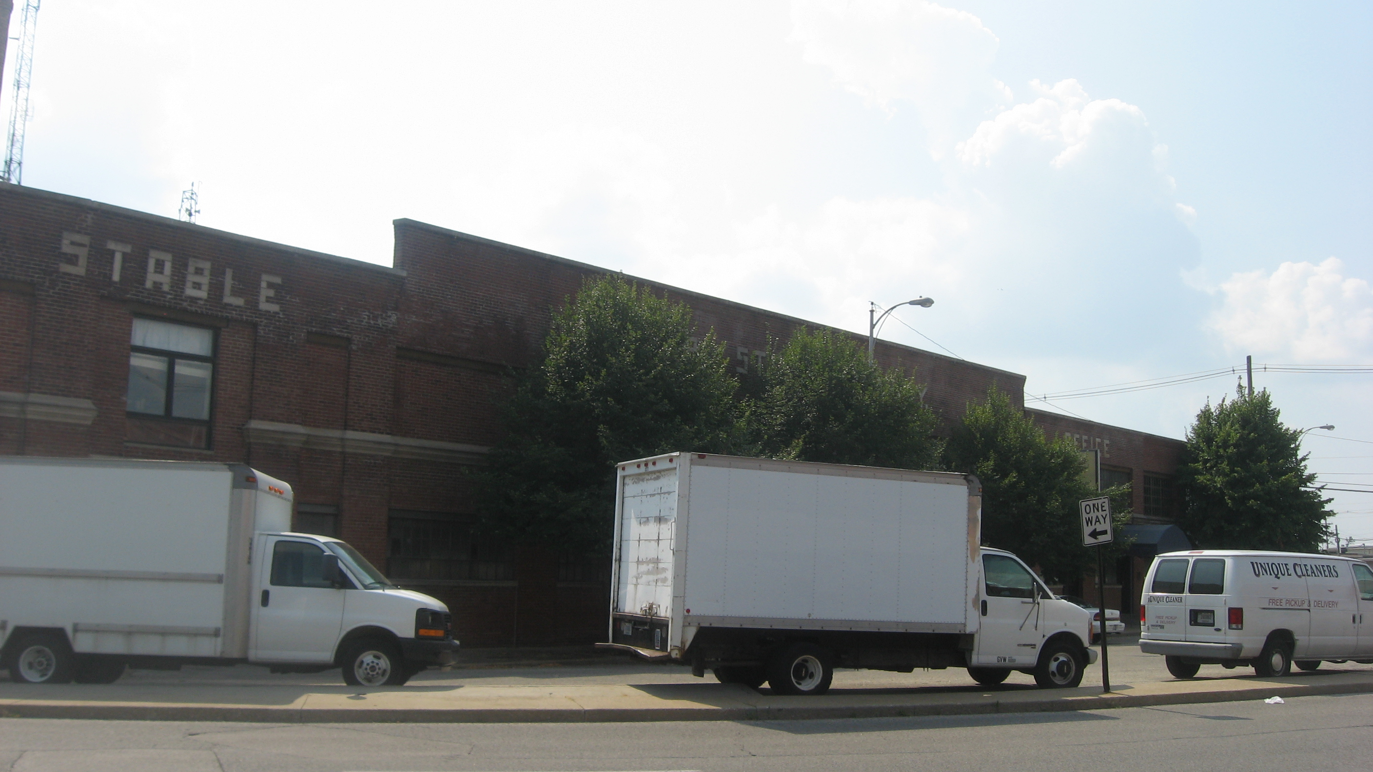 Front of the Pearl Steam Laundry, located at 428 Market Street in Evansville, Indiana, United States. Built in 1912, it is listed on the National Register of Historic Places.